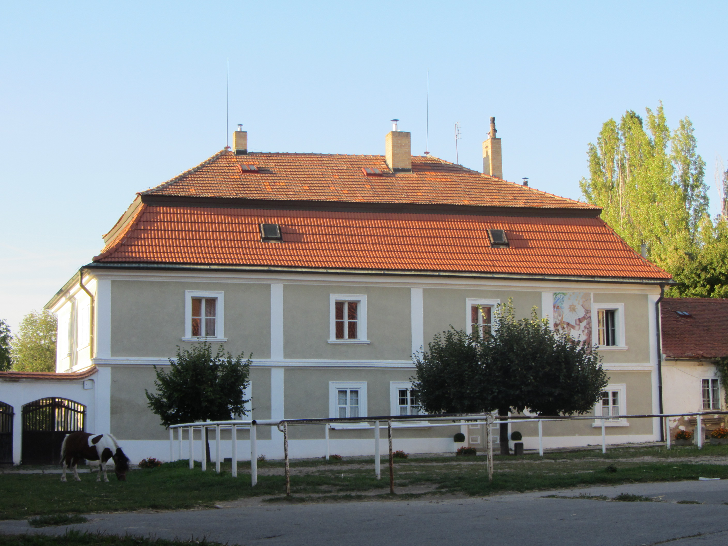 Homestead Bulovka, Prague